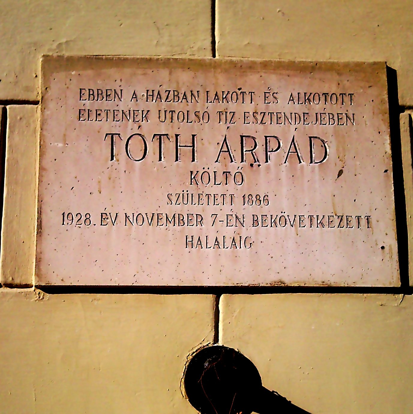 Commemorative plaque of Árpád Tóth, Budapest District I, Táncsics Mihály Street No 13